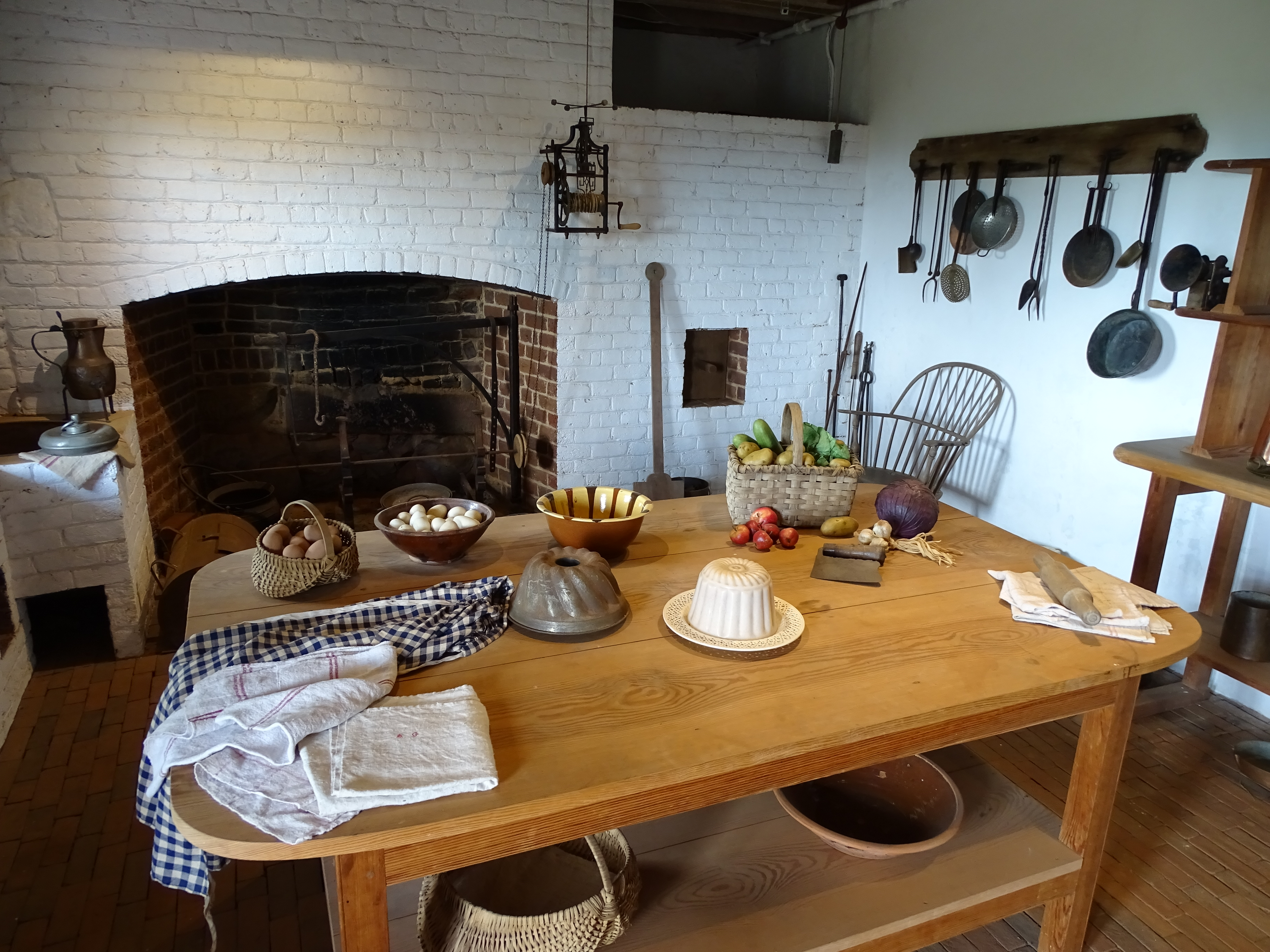 Kitchen of Plantation House - Monticello - Charlottesville - Virginia - USA